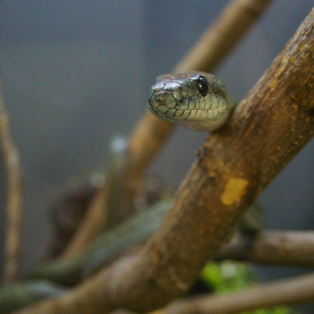 Japanese snake Elaphe climacophora. Photo by Fk in January, 2007. NCBI Taxonomy ID:31143